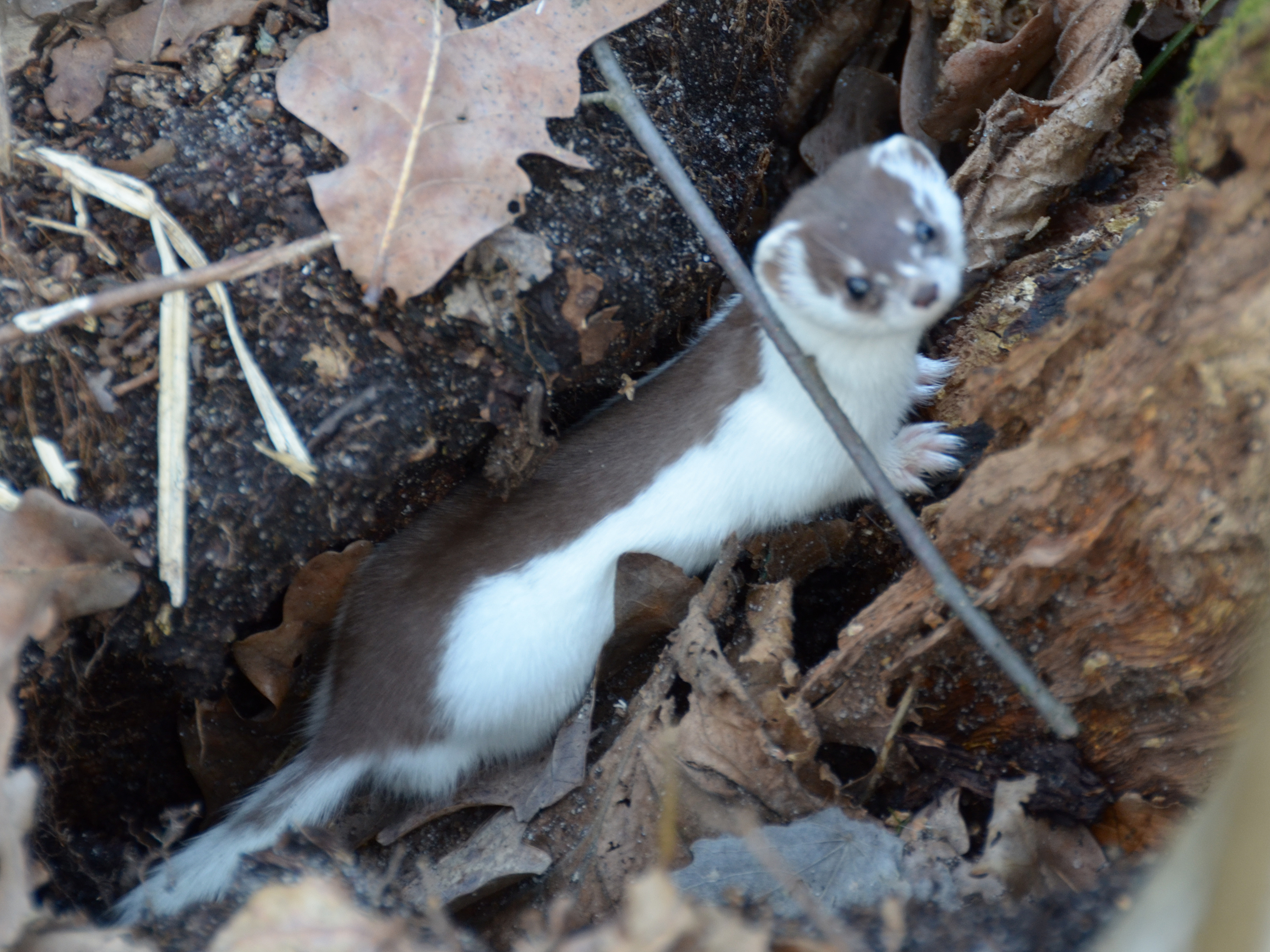 Least weasel in a suburban forest